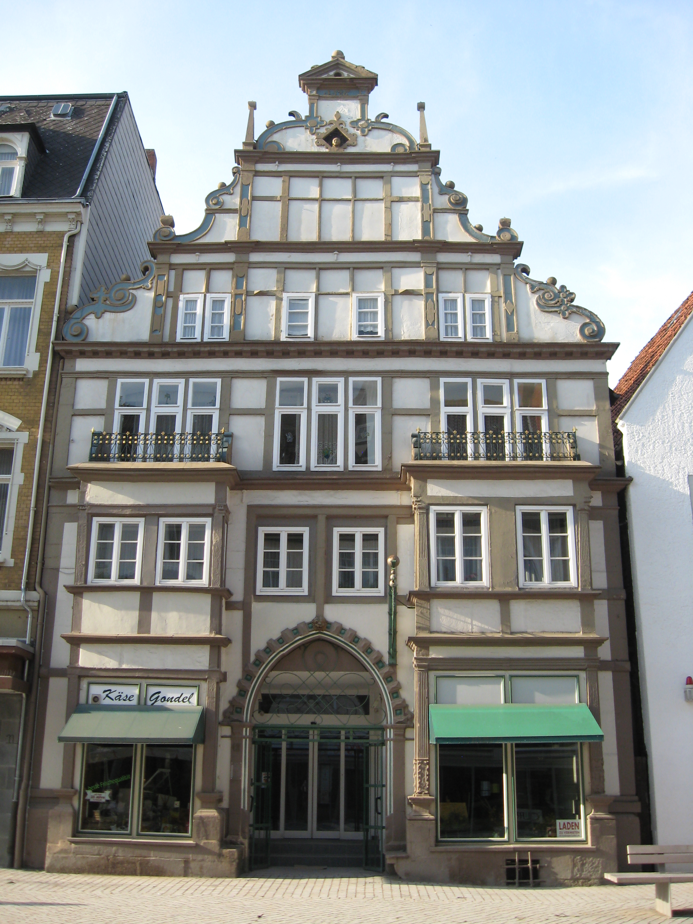 Osterstraße 12, Hameln, Germany